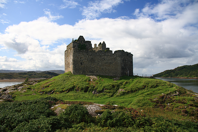 Castle Tioram Castle Tioram, aka Caisteal Tioram (pronounced "Cheerum") is a C13 ruined castle of some importance, situated on an island in Loch Moidart.